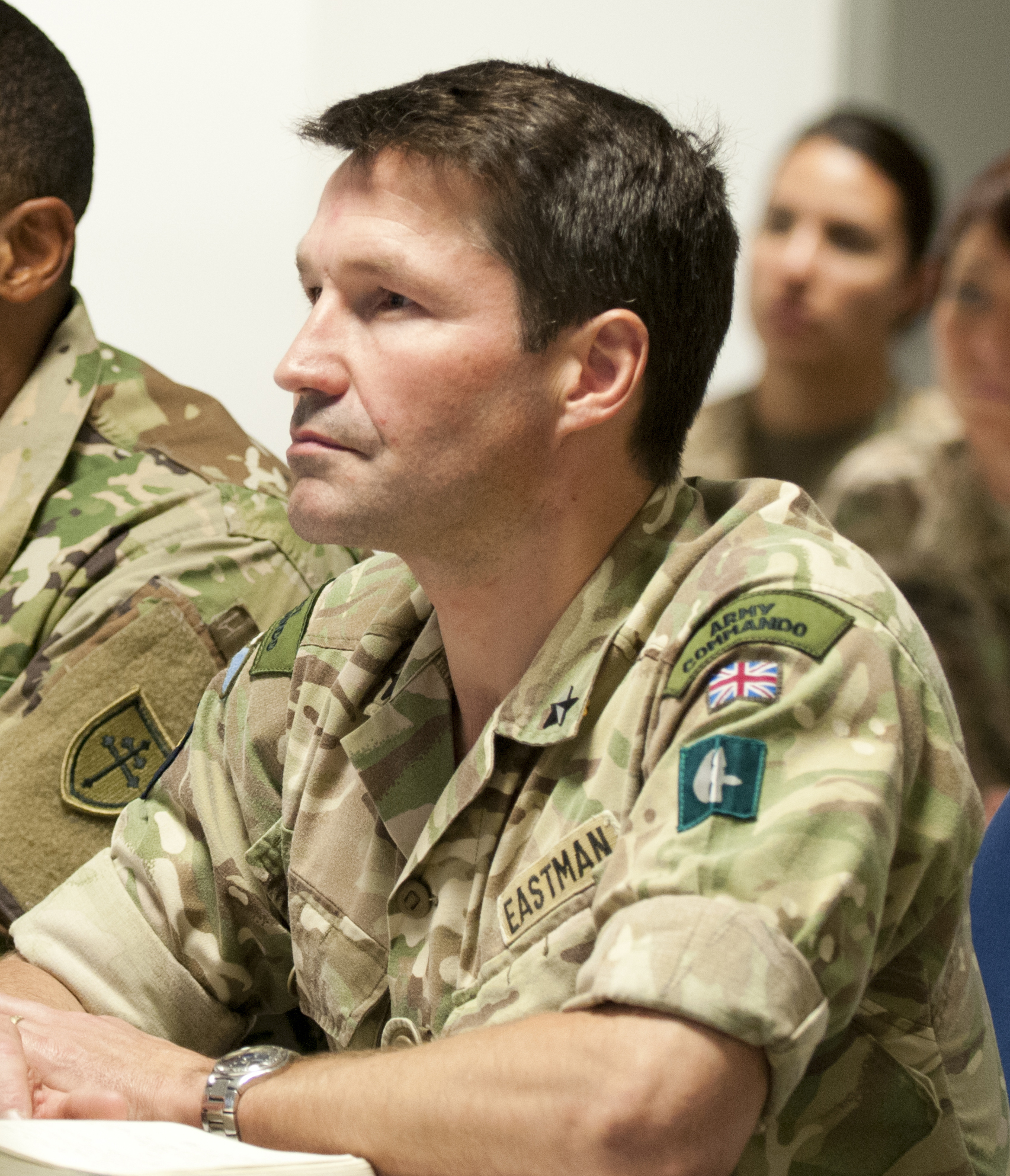 British army Brig. Gen. David Eastman, commanding general of the 102 Logistic Brigade, right, and Col. Vincent Buggs, 79th Sustainment Command (Support) Supports Operation Officer, left, attend a shift change briefing during Exercise Lion Focus '16 Sept.